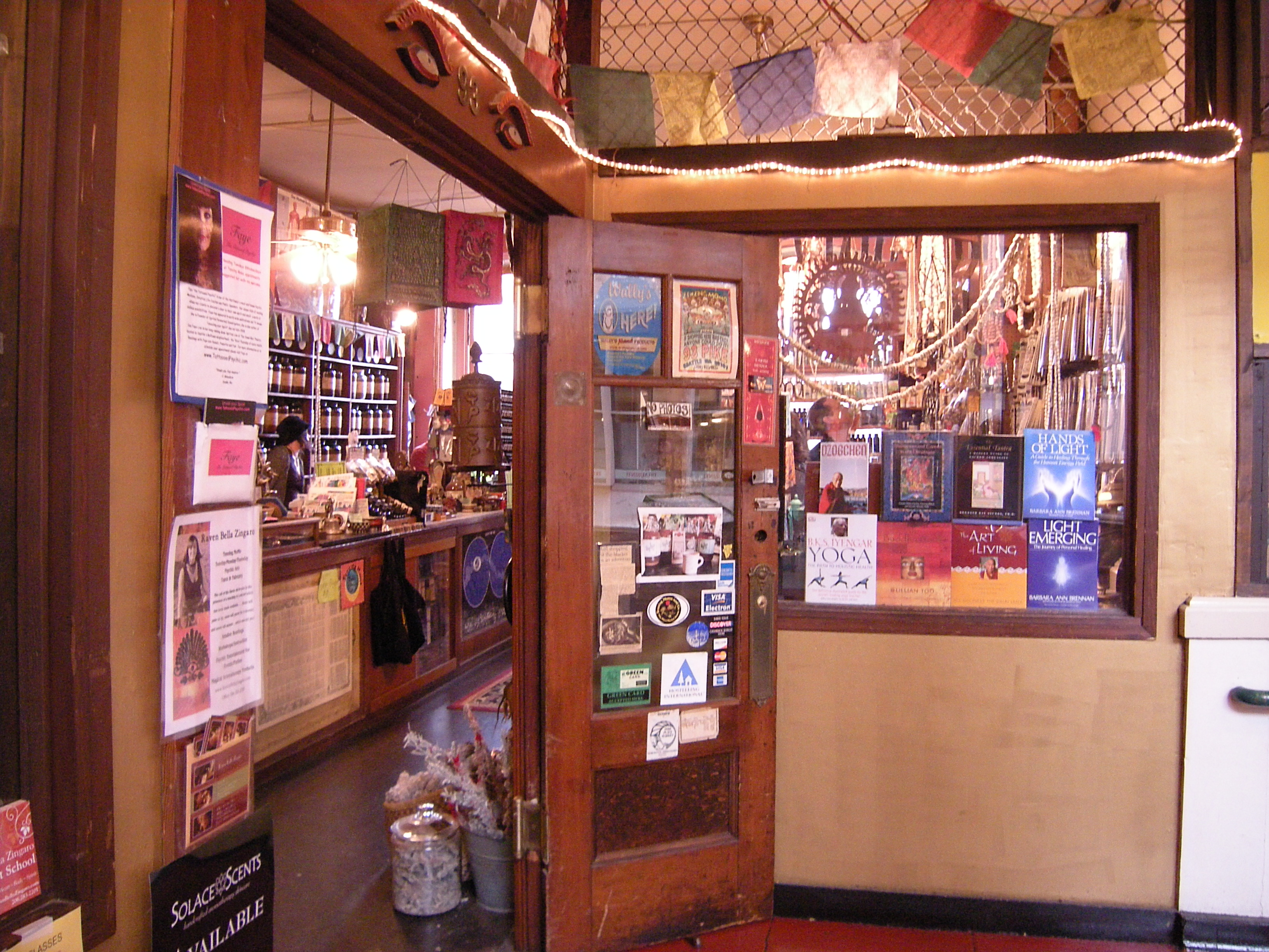 Tenzing Momo herbal apothecary, Economy Market building, Pike Place Market, Seattle, Washington.